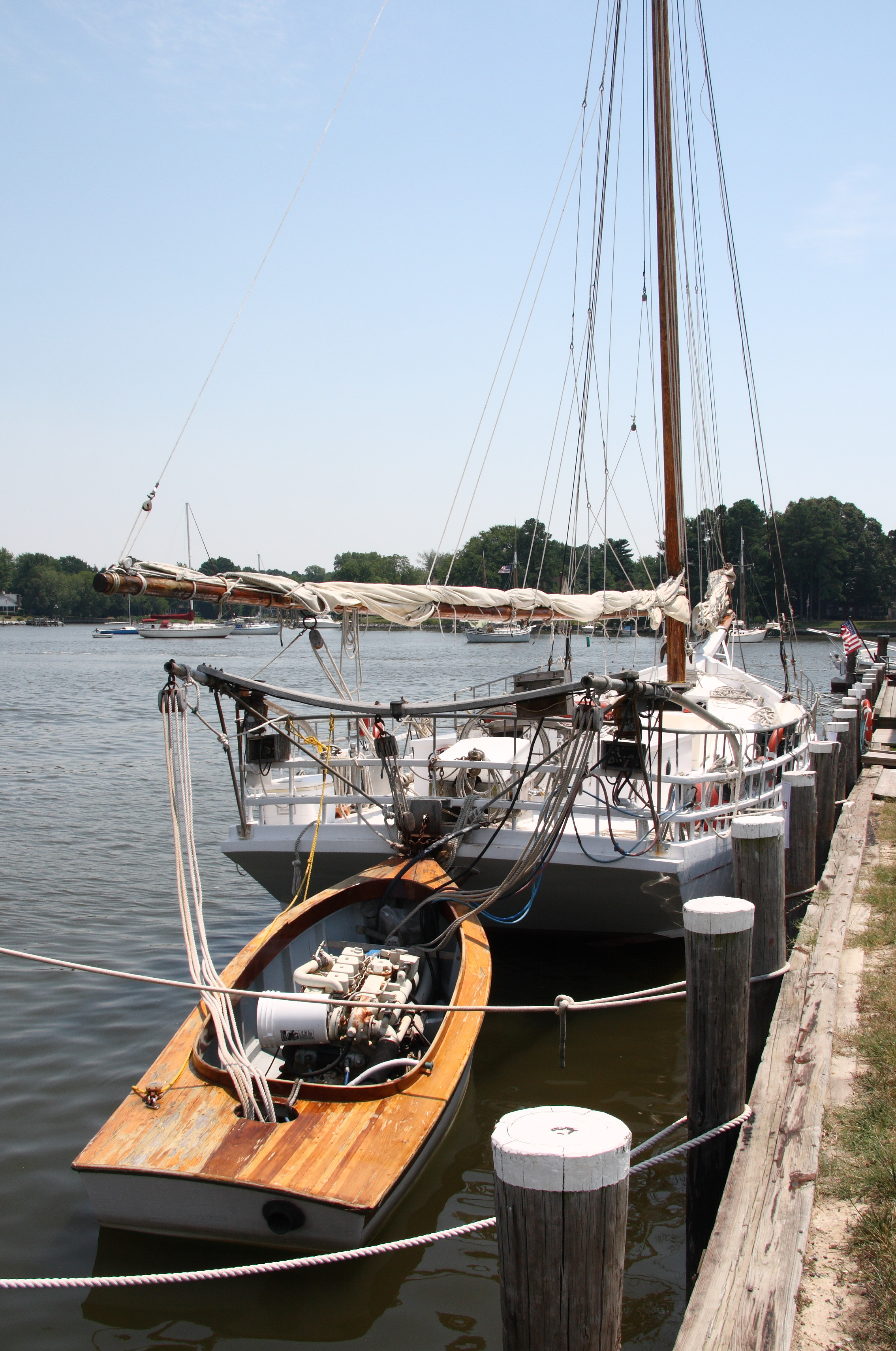 Chesapeake Bay skipjack H. M. Krentz and its pushboat at the Chesapeake Bay Maritime Museum, Saint Michaels, Maryland